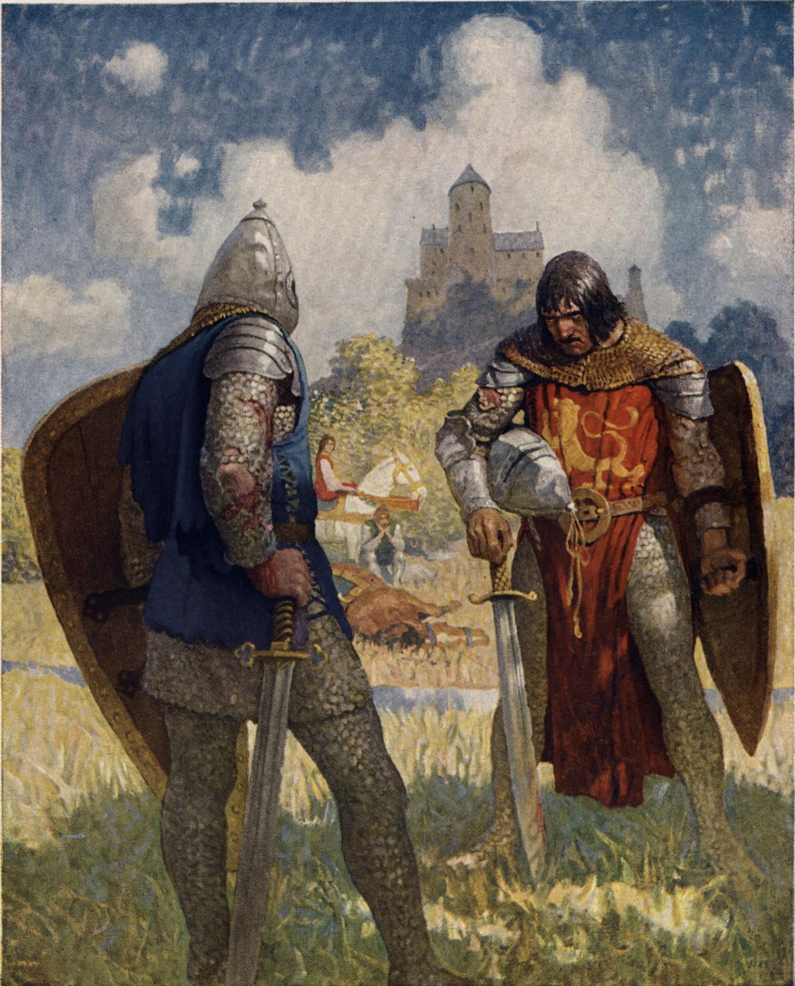 Illustration from page 38 of The Boy's King Arthur: "I am Sir Launcelot du Lake, King Ban's son of Benwick, and knight of the Round Table."